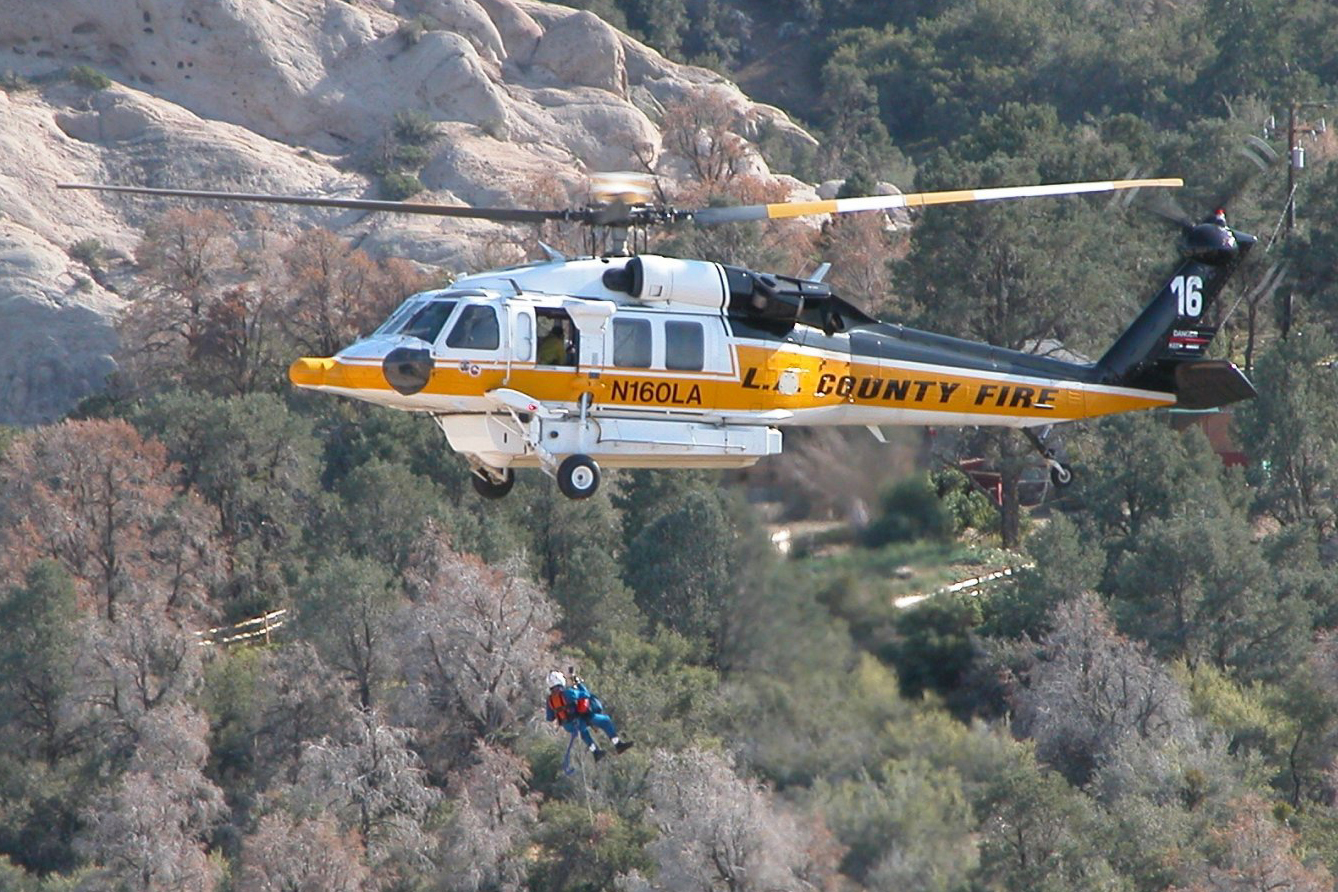 Los Angeles County Fire Department S-70 Firehawk Copter 16 (N160LA) rescuing an injured hiker at Devil's Punchbowl (near Palmdale, Southern California).